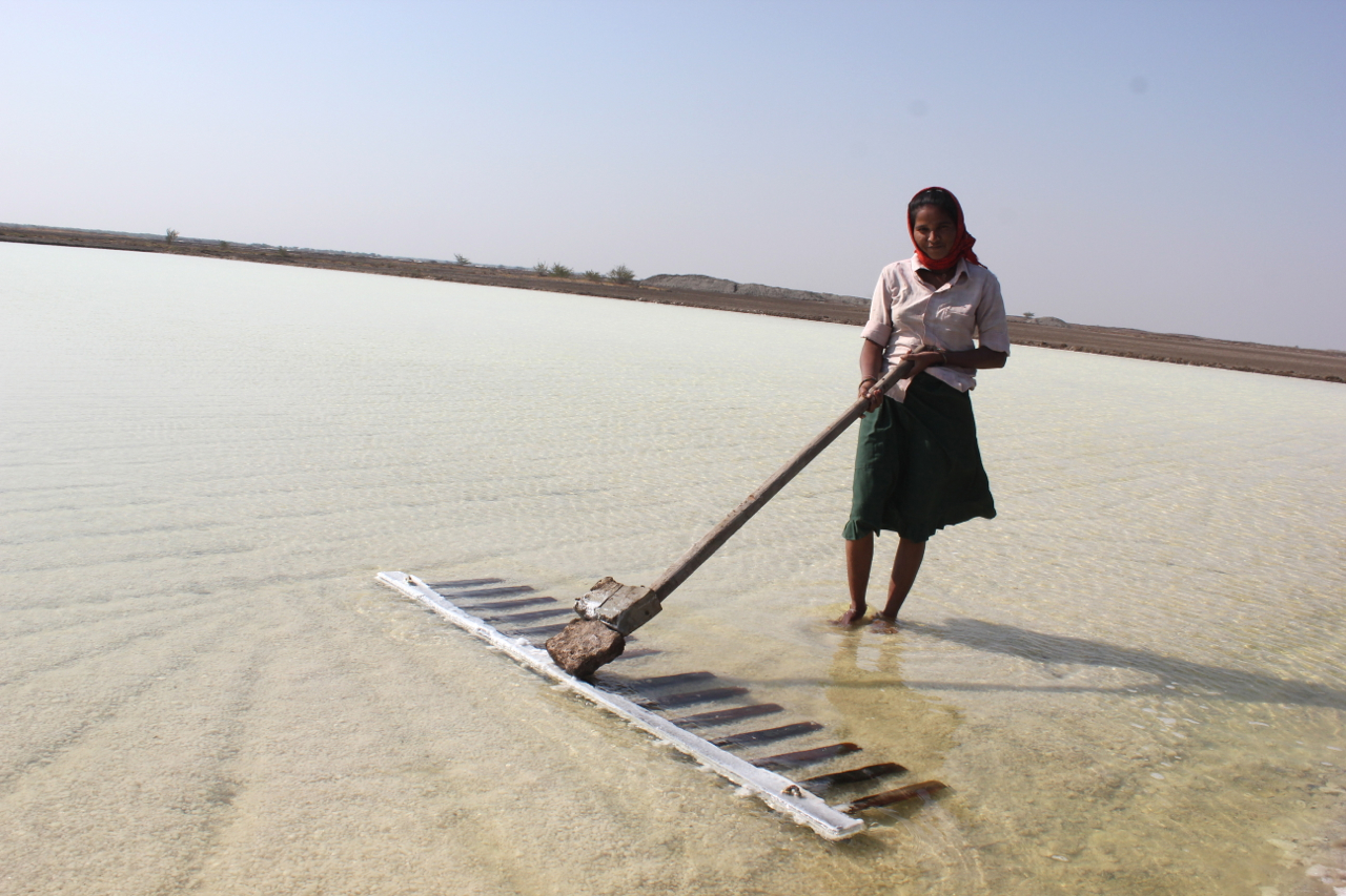 Zainabad, Little Rann, Gujarat. Dec '14. People of Gujarat, India